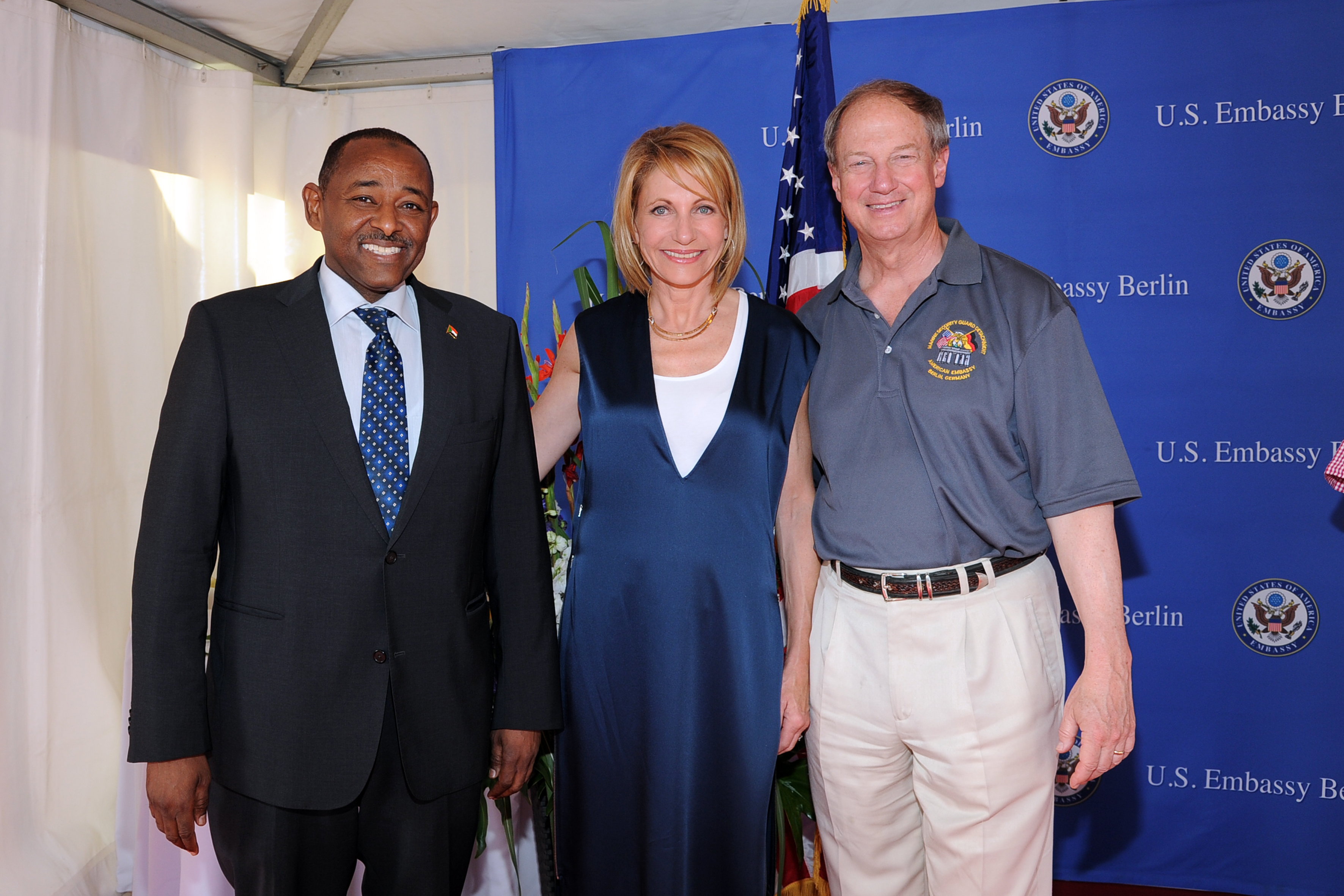 L to R: Badreldin Abdalla Mohamed Ahmed, Kimberly Emerson, and John B. Emerson, Independence Day in Berlin, July 1, 2016